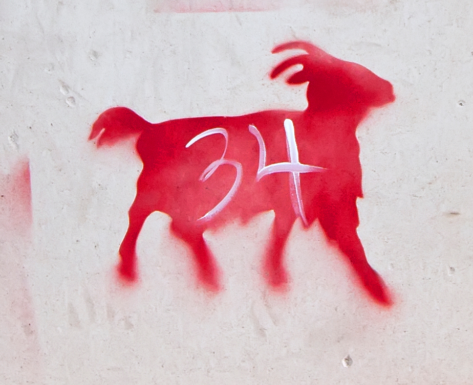 Detail of goat from Red Goats!